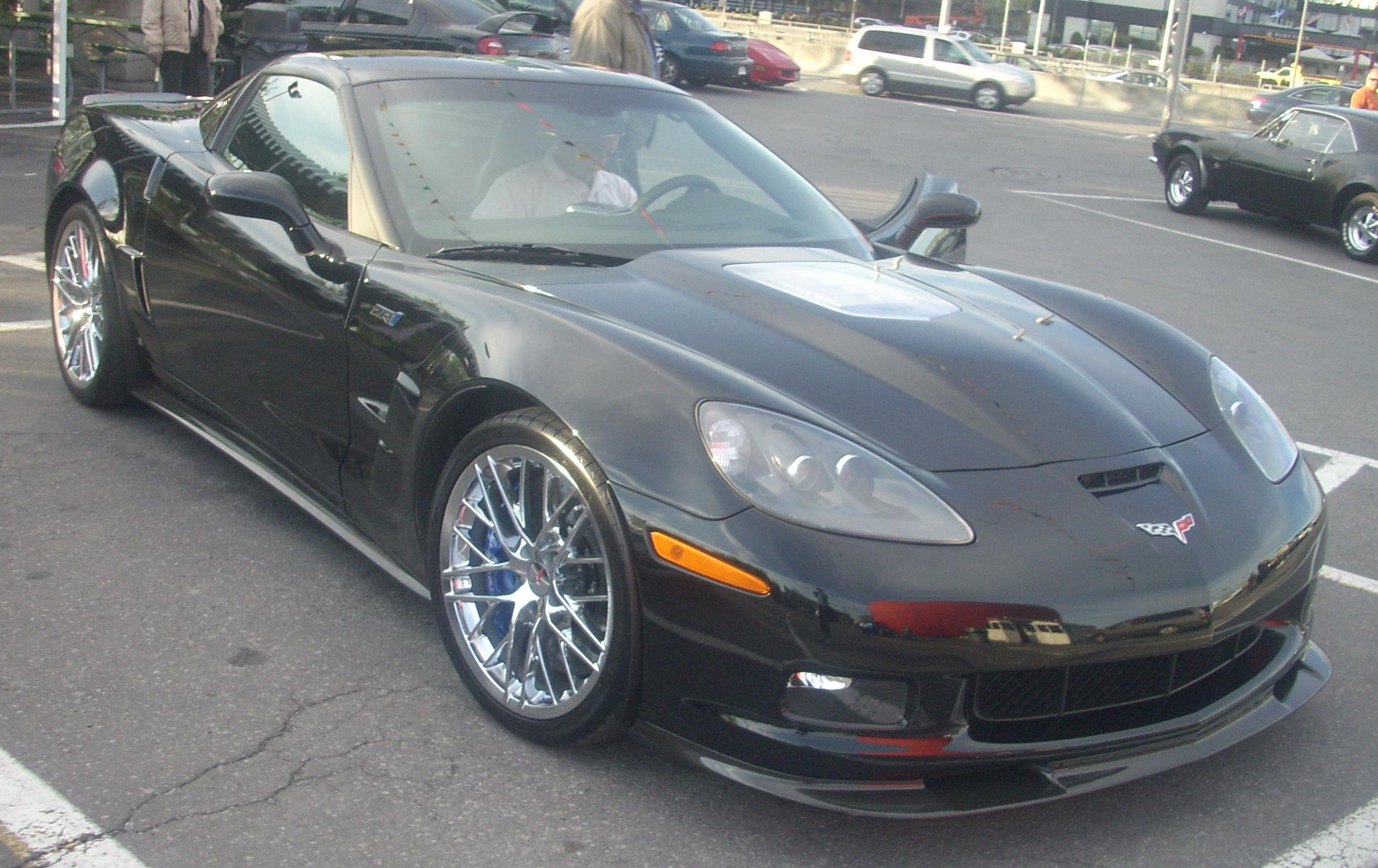 2009-2010 Chevrolet Corvette ZR1 photographed in Montreal, Quebec, Canada at Gibeau Orange Julep.